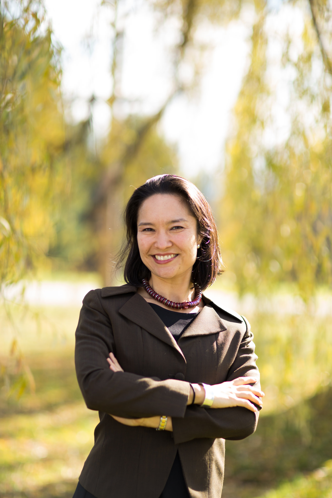 Photograph of Mariko Silver taken in 2014